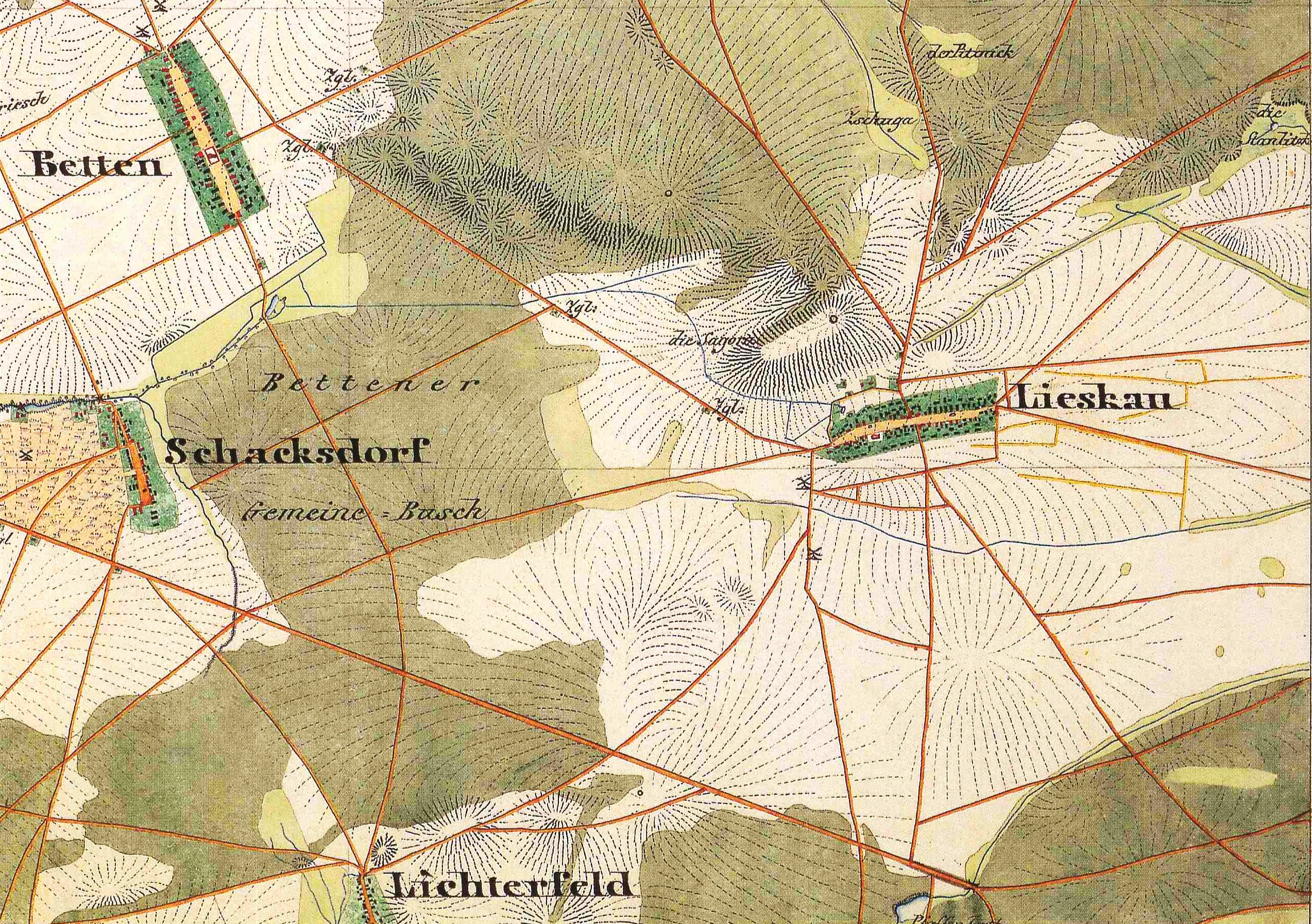 Lichterfeld, Lkr. Elbe-Elster, Brandenburg, Germany, detail from the Urmesstischblatt Sheet 4348 Finsterwalde, drawn in 1847